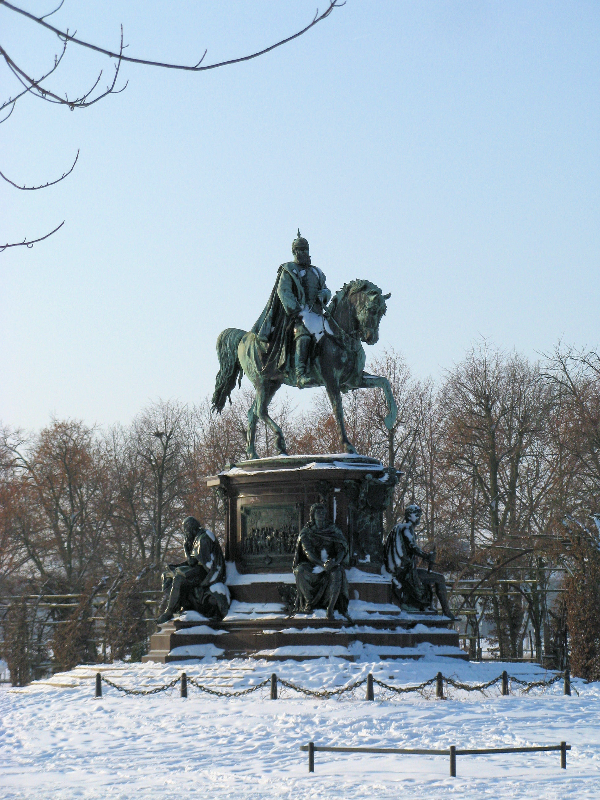 Equestrian statue of Friedrich Franz II. in the park of Schwerin Castle in Schwerin, Mecklenburg-Vorpommern, Germany